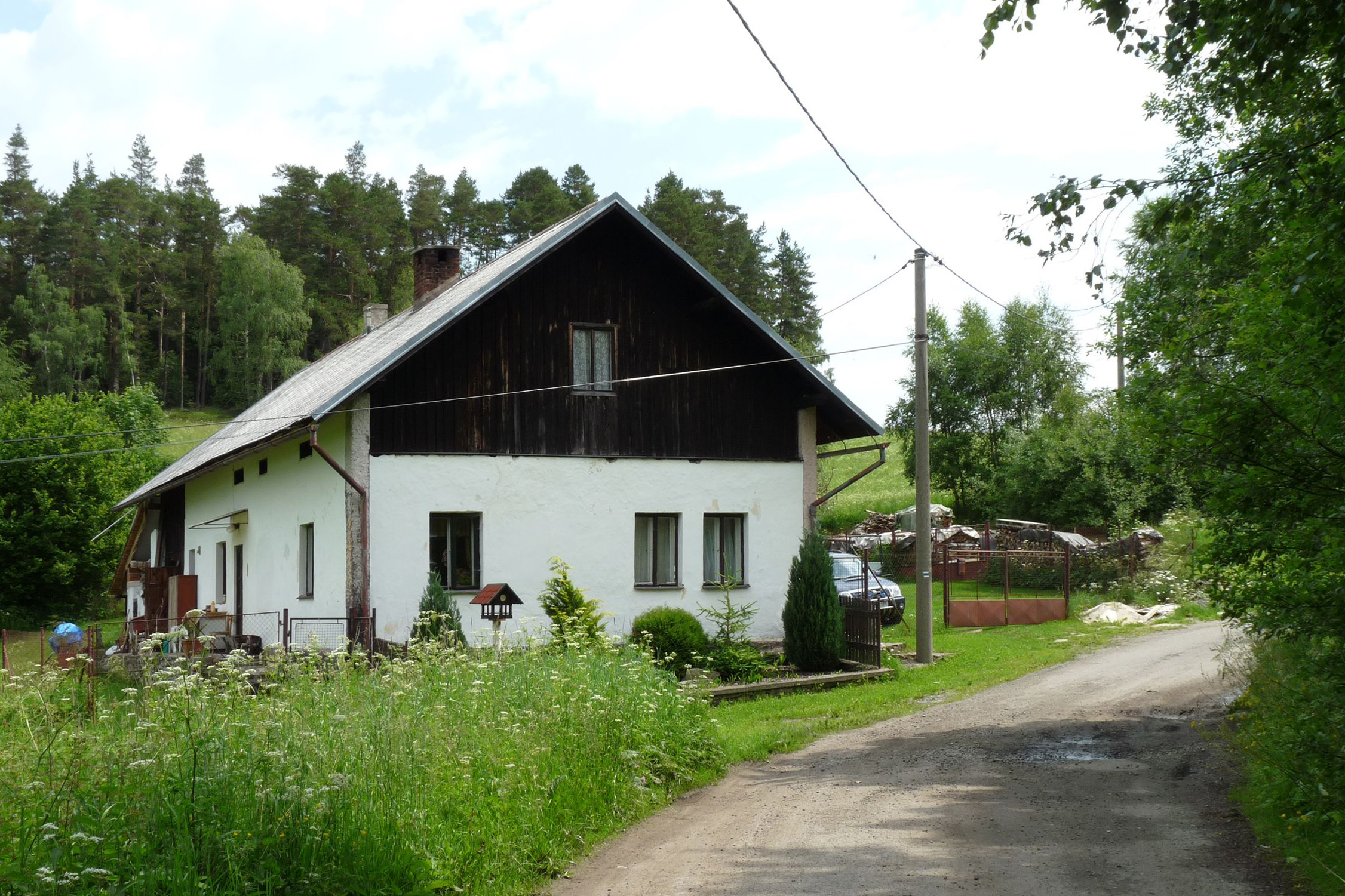 House No 62 in the village of Malý Radkov, part of the town of Hartmanice, Klatovy District, Plzeň Region, Czech Republic.